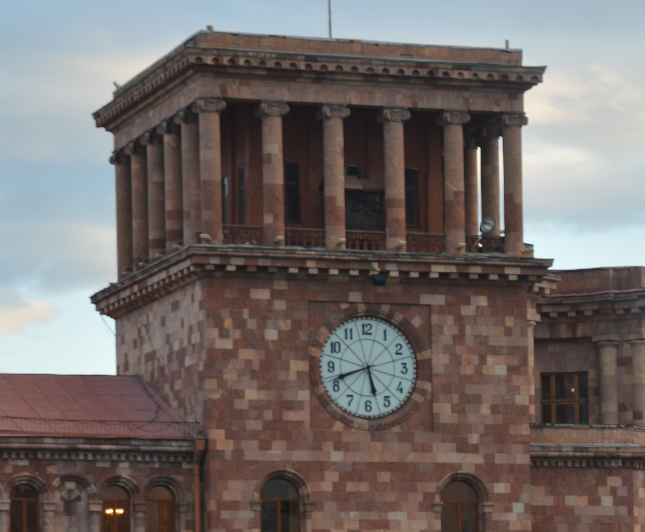 The clock of Government House No 1 in Yerevan